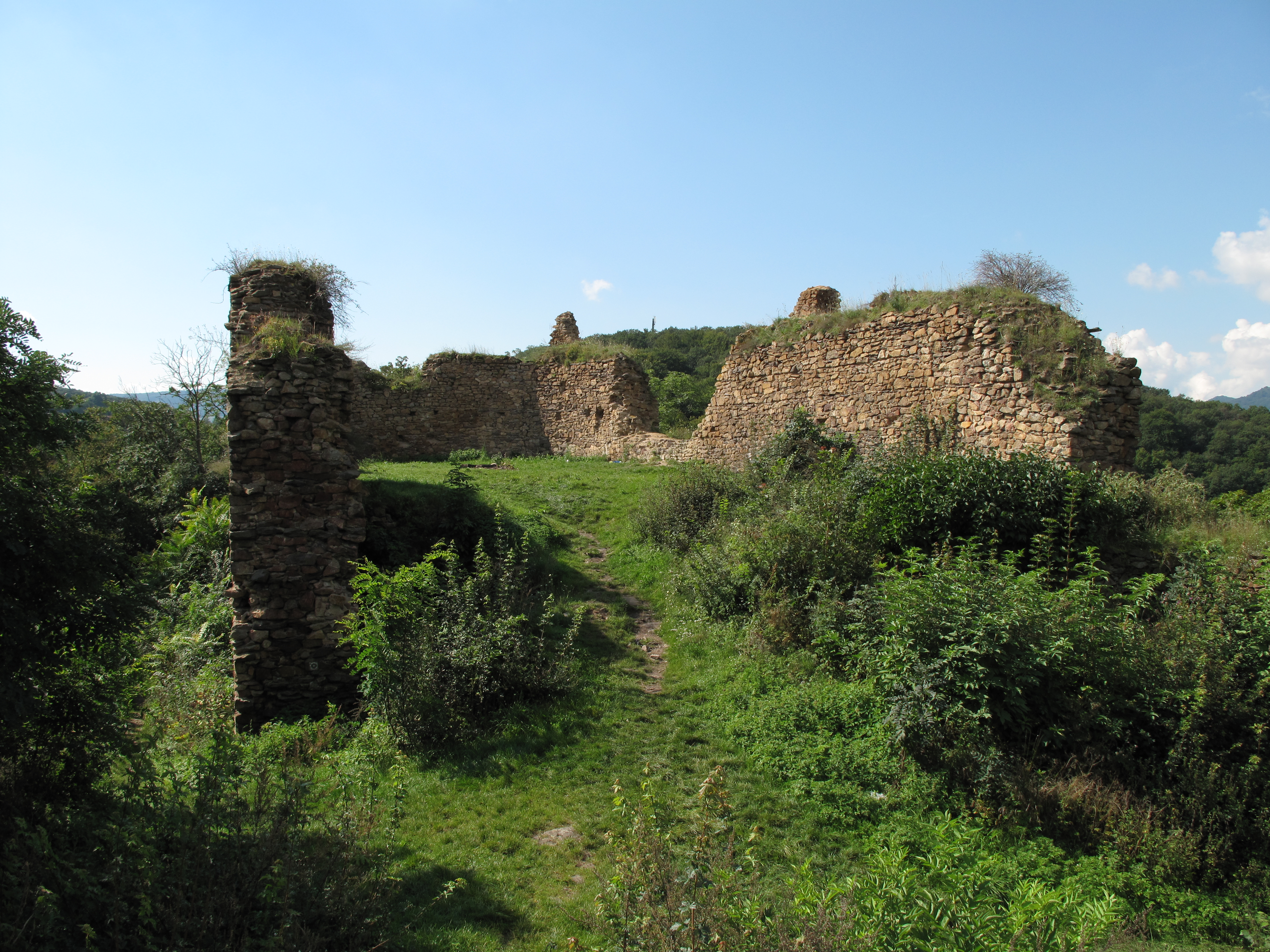 Ruins of former Oparno Castle, Litoměřice District, Czech Republic.